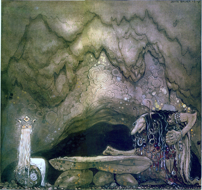 Illustration for "Pojken och trollen eller Äventyret" (The boy and the trolls or The Adventure) by Walter Stenström in "Bland tomtar och troll" (Among gnomes and trolls), 1915.